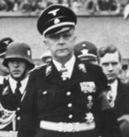 Eberstein, Friedrich Karl von Freiherr: SS-Obergruppenführer an general of the Waffen-SS, Ministerialdirektor, Deutschland